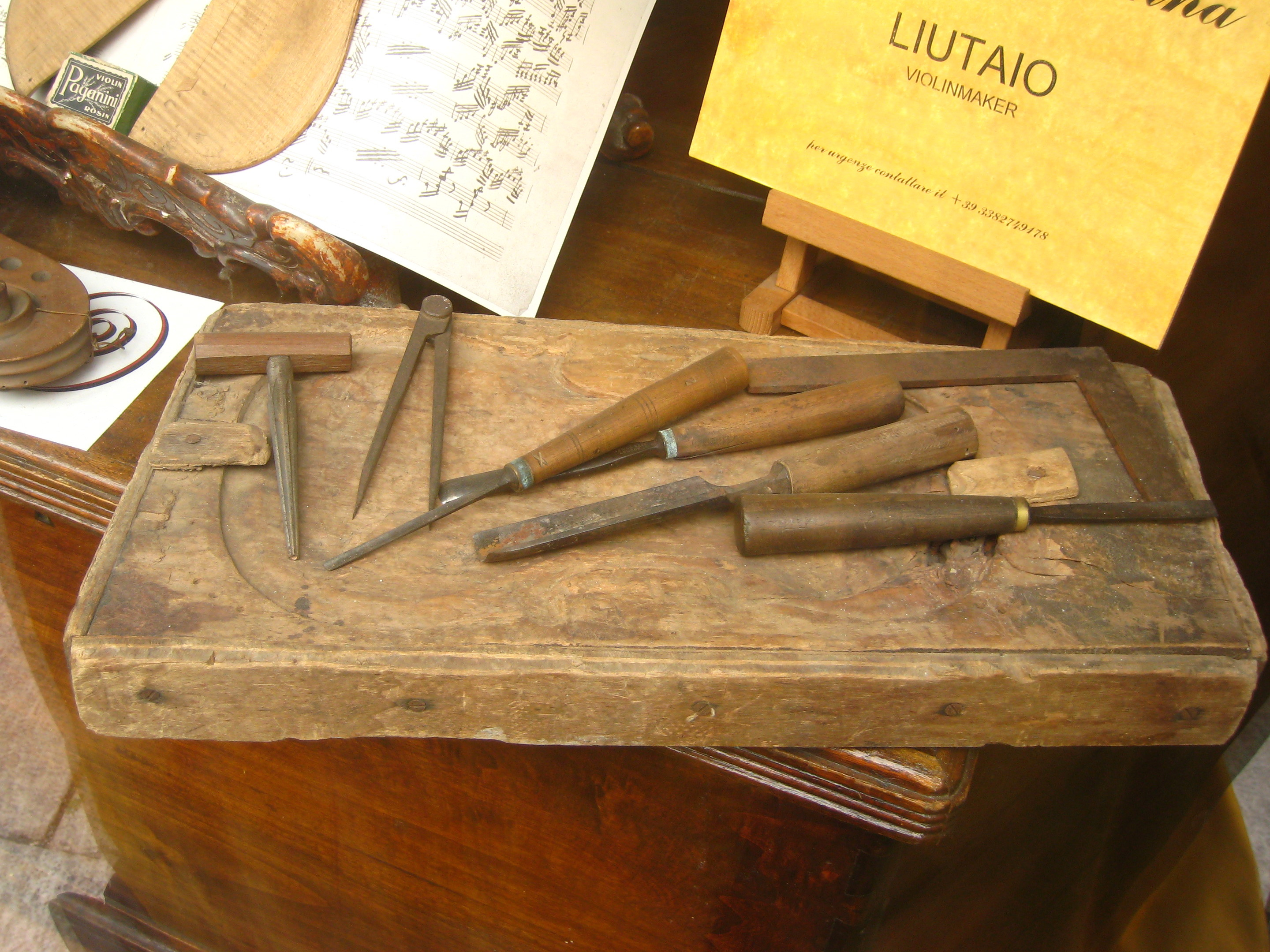 Italy - Cremona - Old Luthier's tools